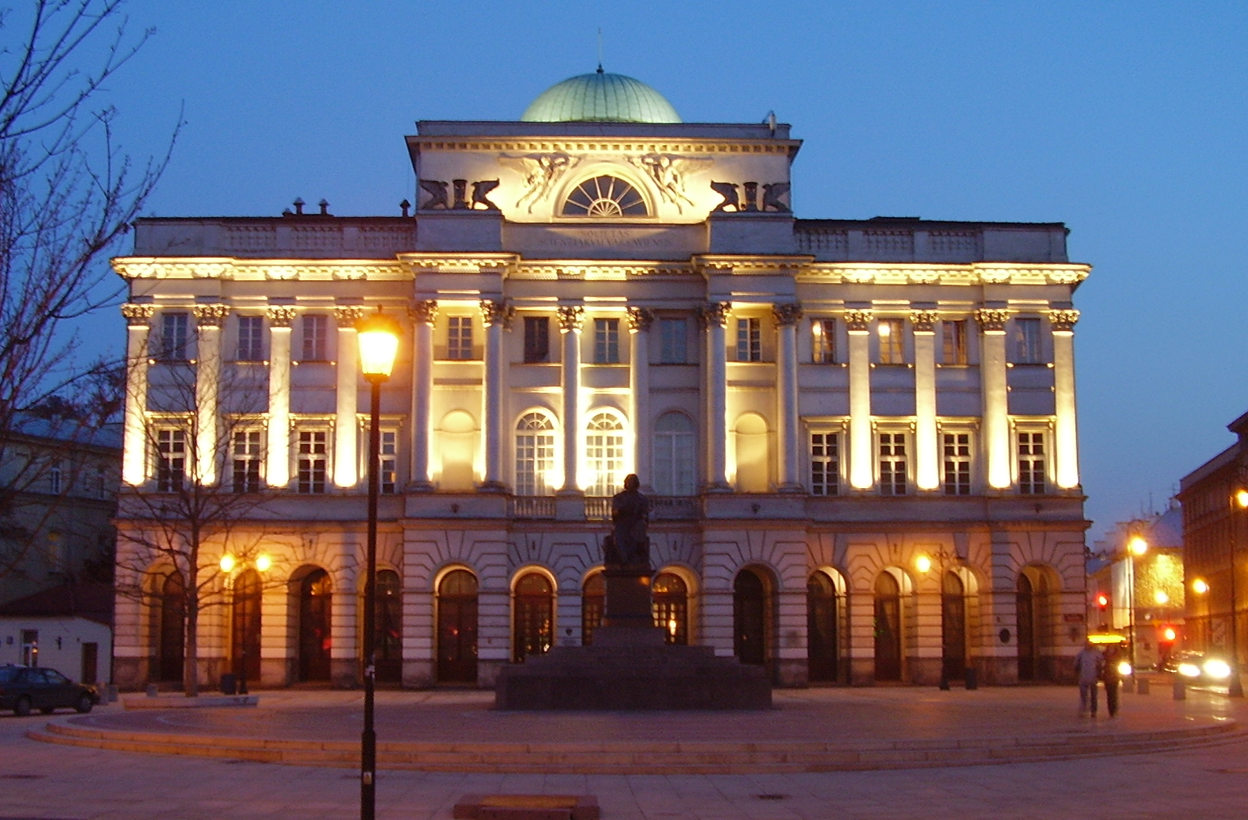 Warsaw during Easter 2008